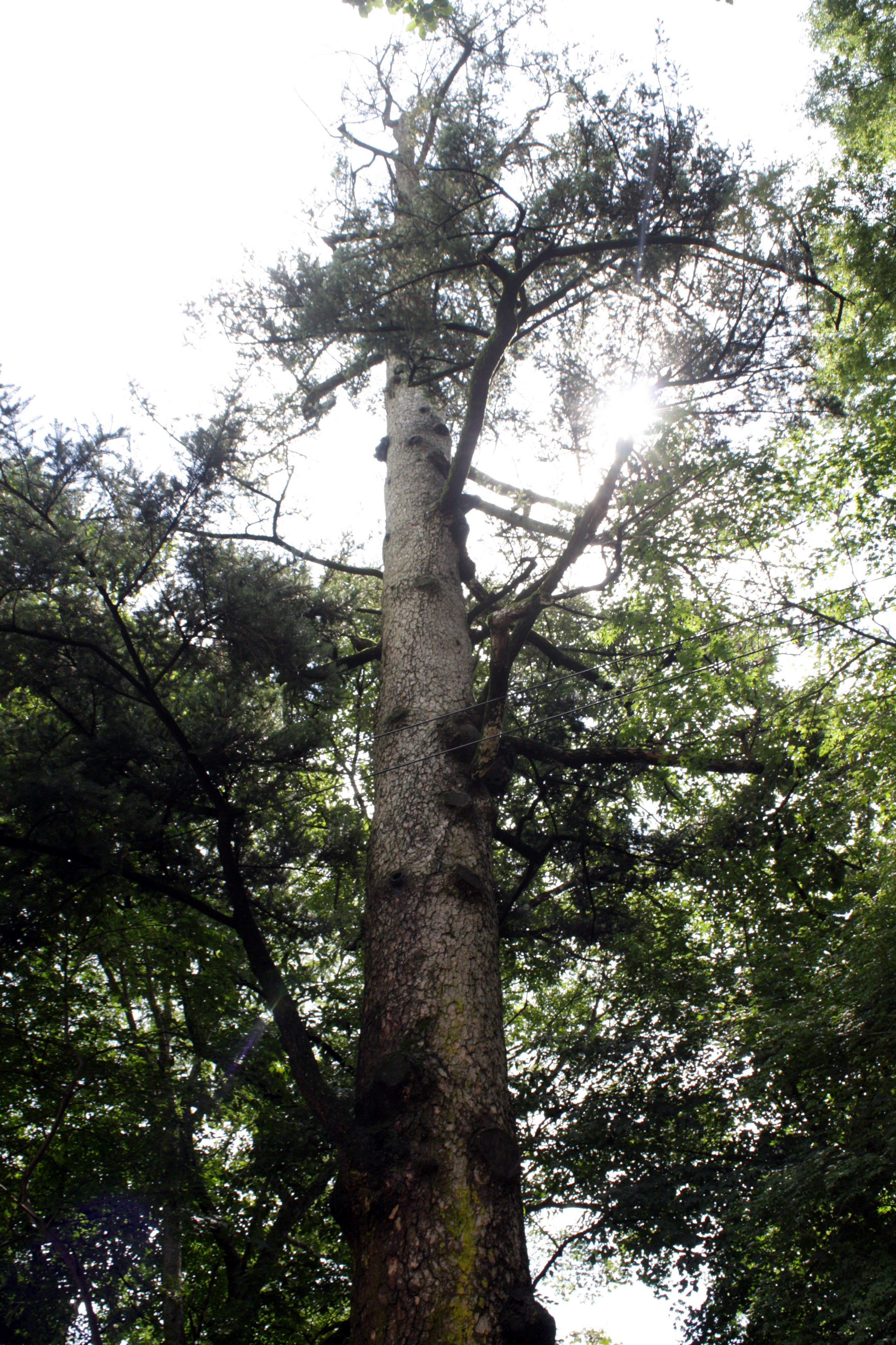 Abies holophylla in Hwasun, Korea